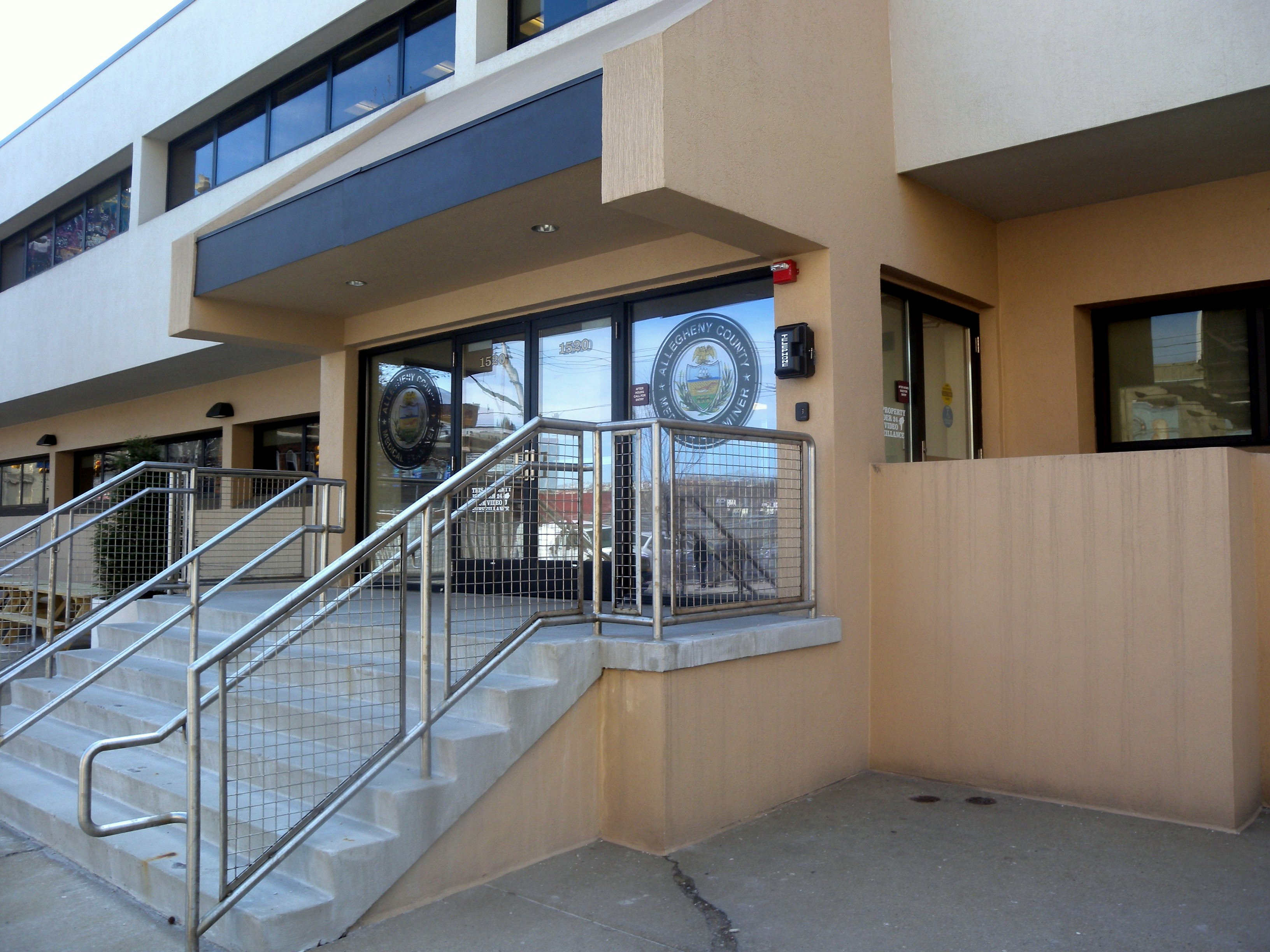 Looking east at Allegheny County Medical Examiner office on a sunny midday.